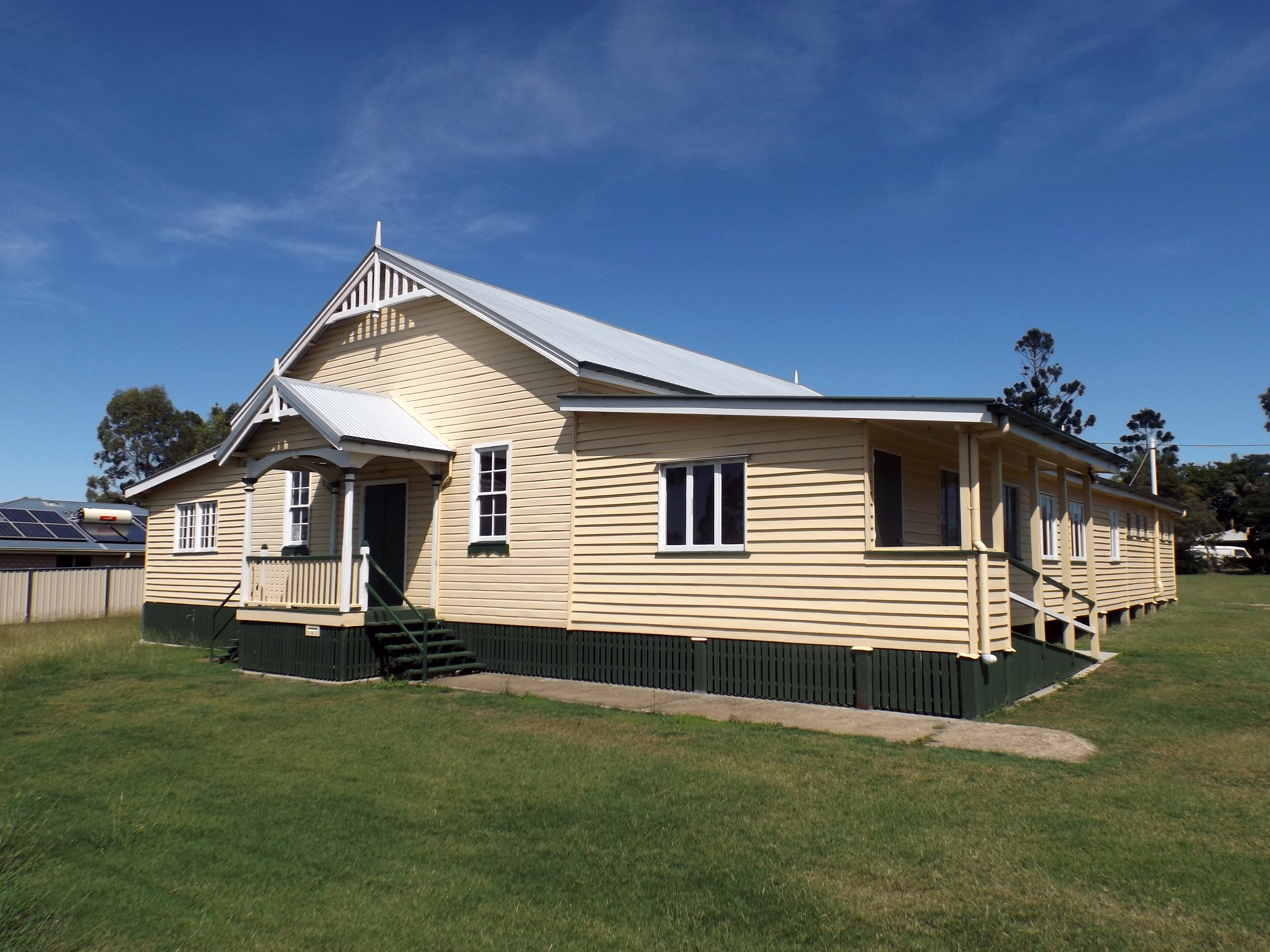 Peak Crossing Public Hall at Peak Crossing, Scenic Rim Region, Queensland, Australia.